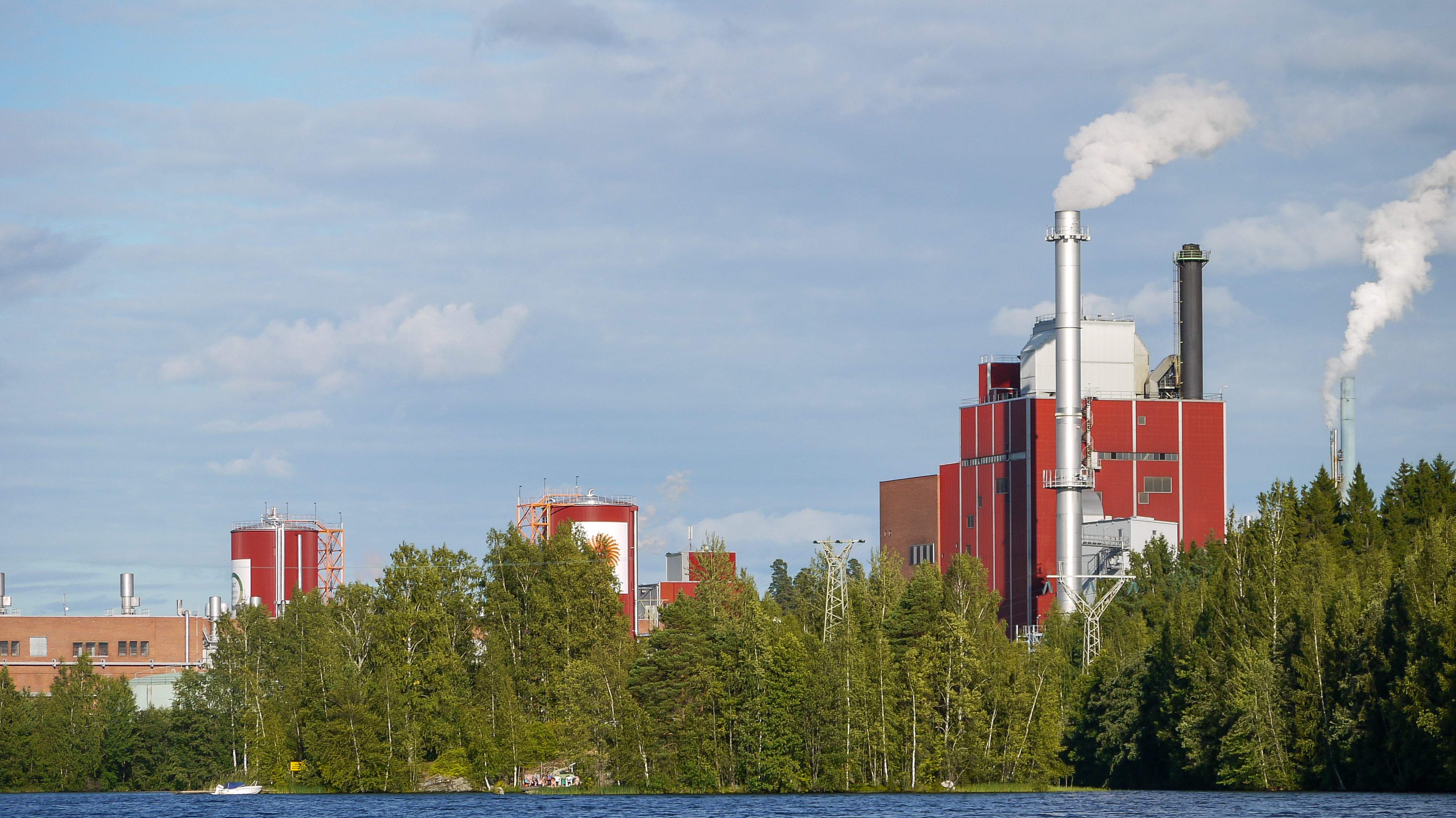 Heinola fluting mill in August 2015.